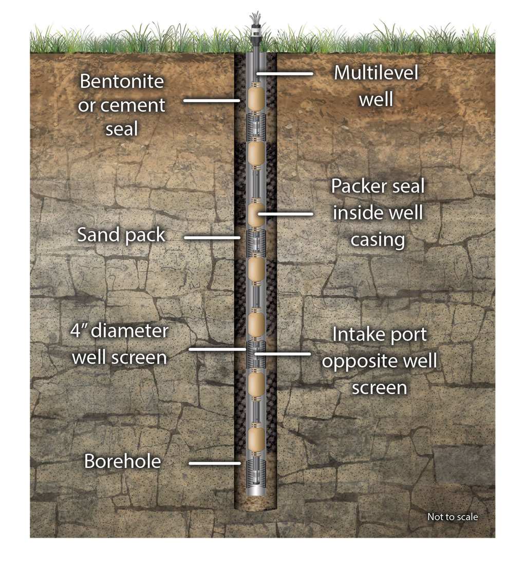 Multilevel Installed in Steel or PVC Well